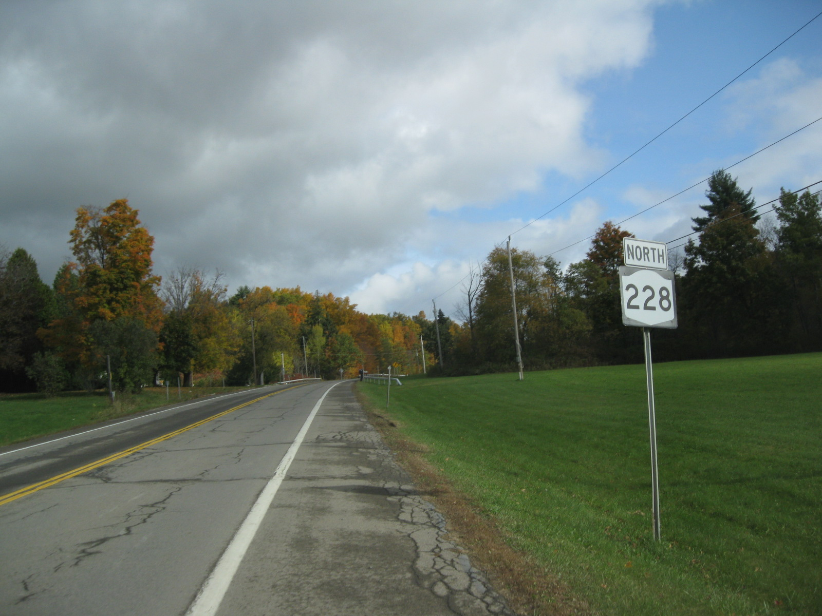 New York State Route 228 heading northbound in Cayuta Lake.